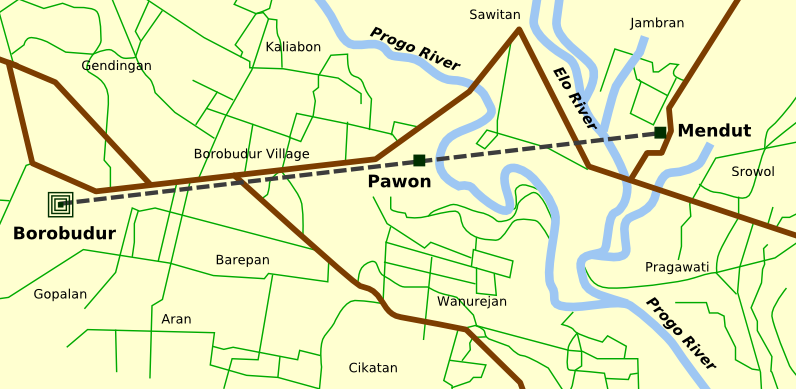 Location map of Borobudur, Pawon and Mendut temples in Central Java, Indonesia